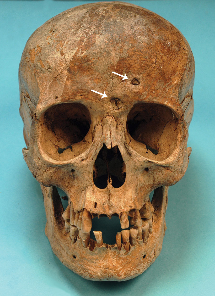 The skull of Maria Salviati in frontal view. Cavitations on the frontal bone are apparent.